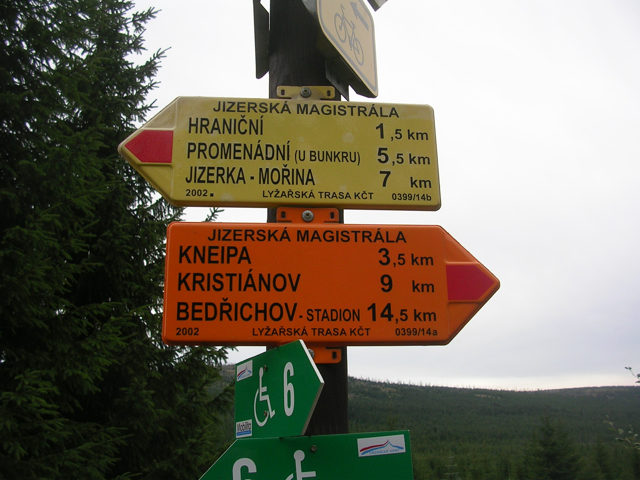 Kořenov-Jizerka, Jablonec nad Nisou District, Liberec Region. A hiking fingerpost. Runningski route signs.